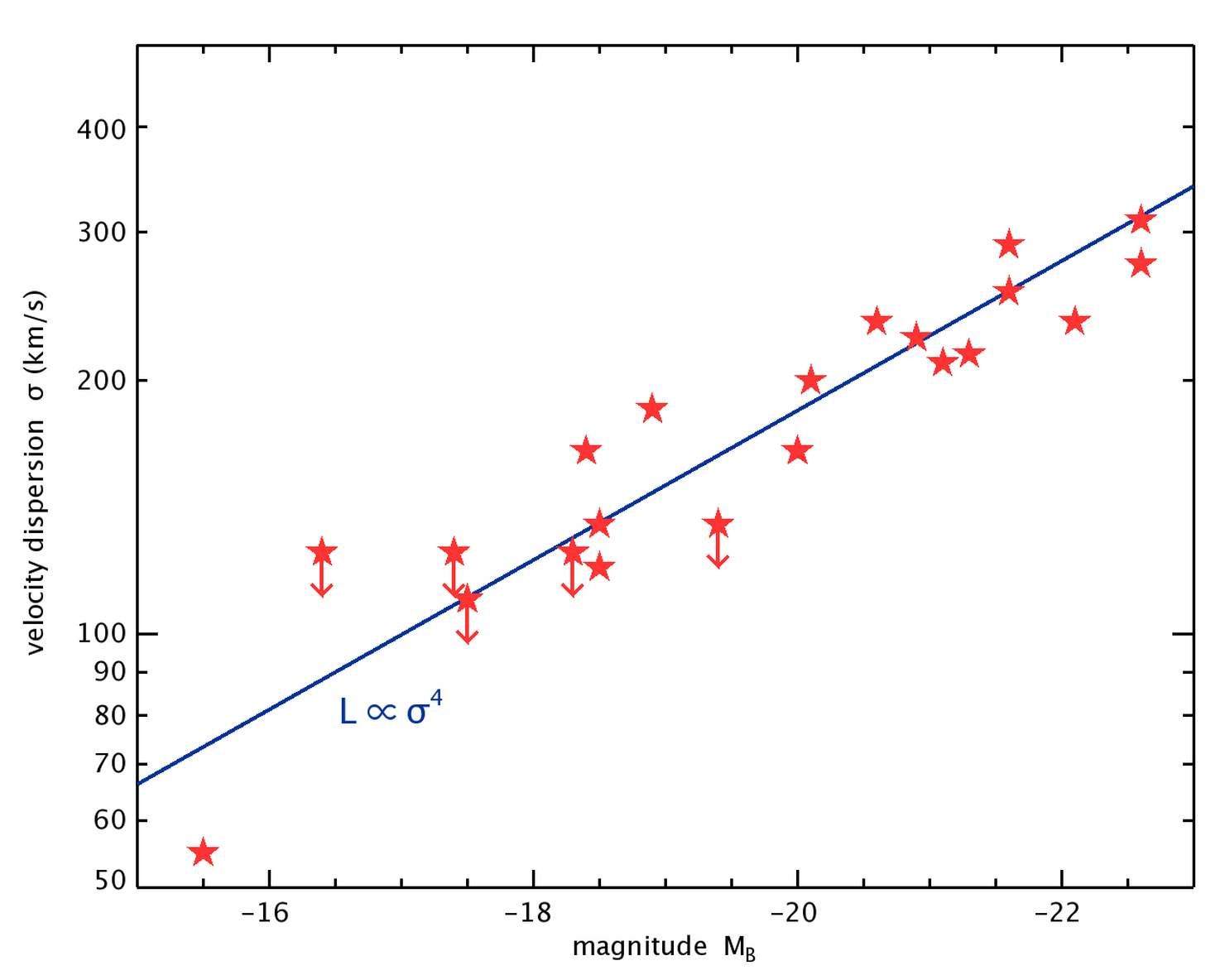 Plot of the Faber-Jackson relation using data from Faber & Jackson (1976)